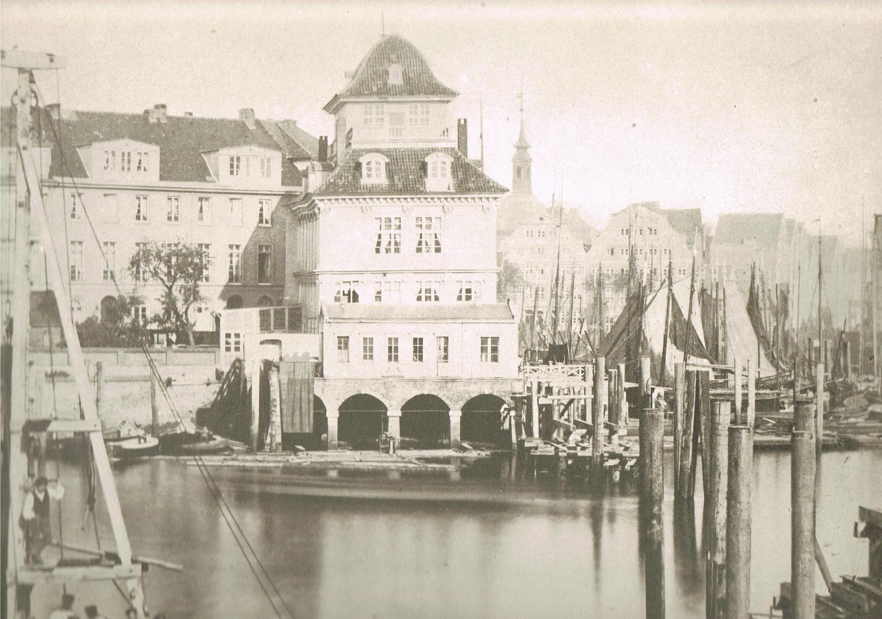 Charles Fuchs (1803-1874): Das Baumhaus (von Kehrwieder aus); Charles Fuchs photograph of the "Baumhaus", a customs house in the port of Hamburg; 1848